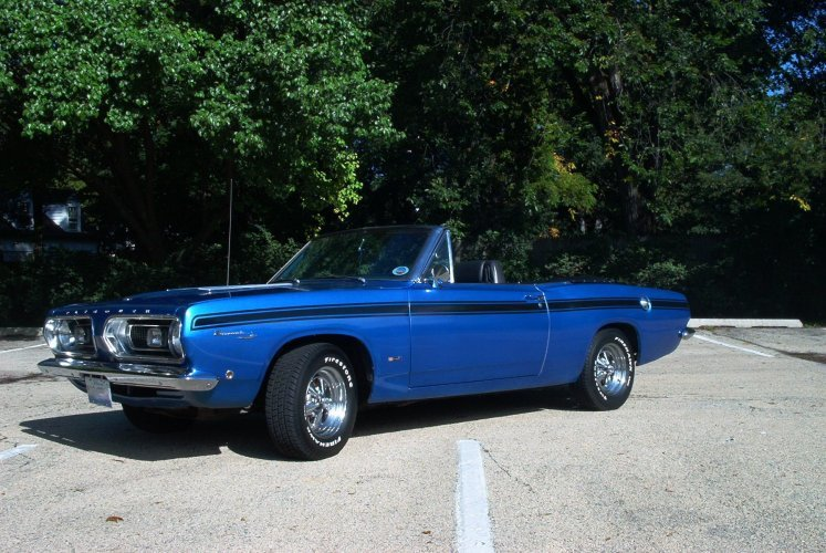 1967 (2nd Generation) Plymouth Barracuda convertible. 1968 fenders because they were free; 1969 side stripe just because I like it better.